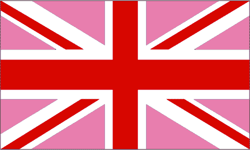 "pink jack"